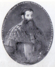 Marius Scotus Thoiry (Yvelines) Ancient painting depicting Marius Scotus founder of the Marescotti dynasty in 800 AD. Italy